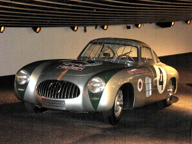 Mercedes-Benz 300 SL used at the Panamericana race